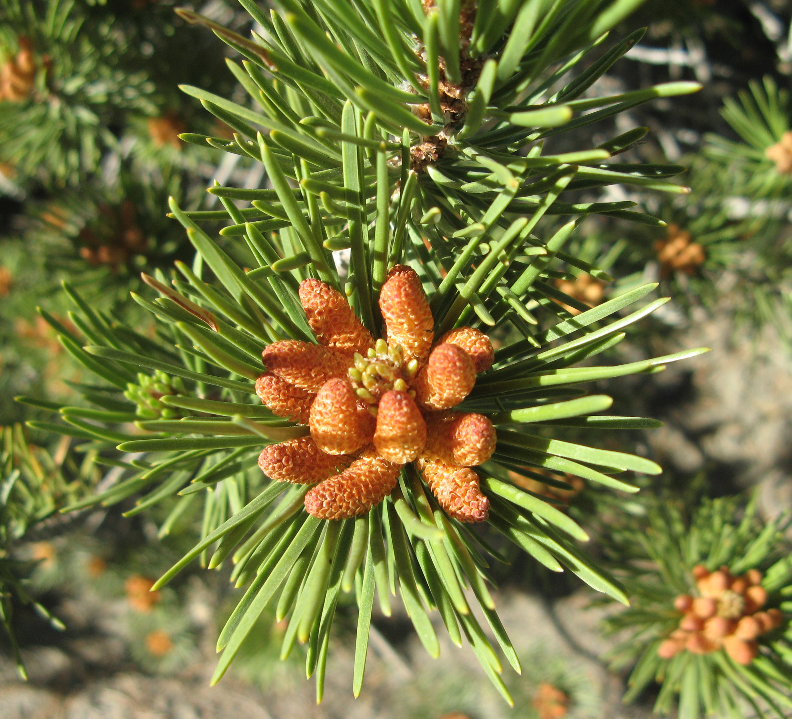 A cluster of pollen-bearing male cones of Pinus contorta subsp. murrayana in Mount San Antonio at around 8,500ft.